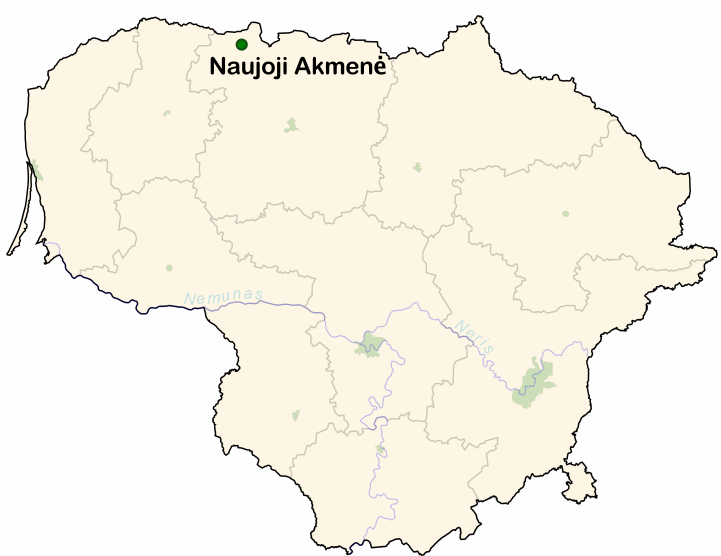 Naujoji Akmenė on the map of Lithuania